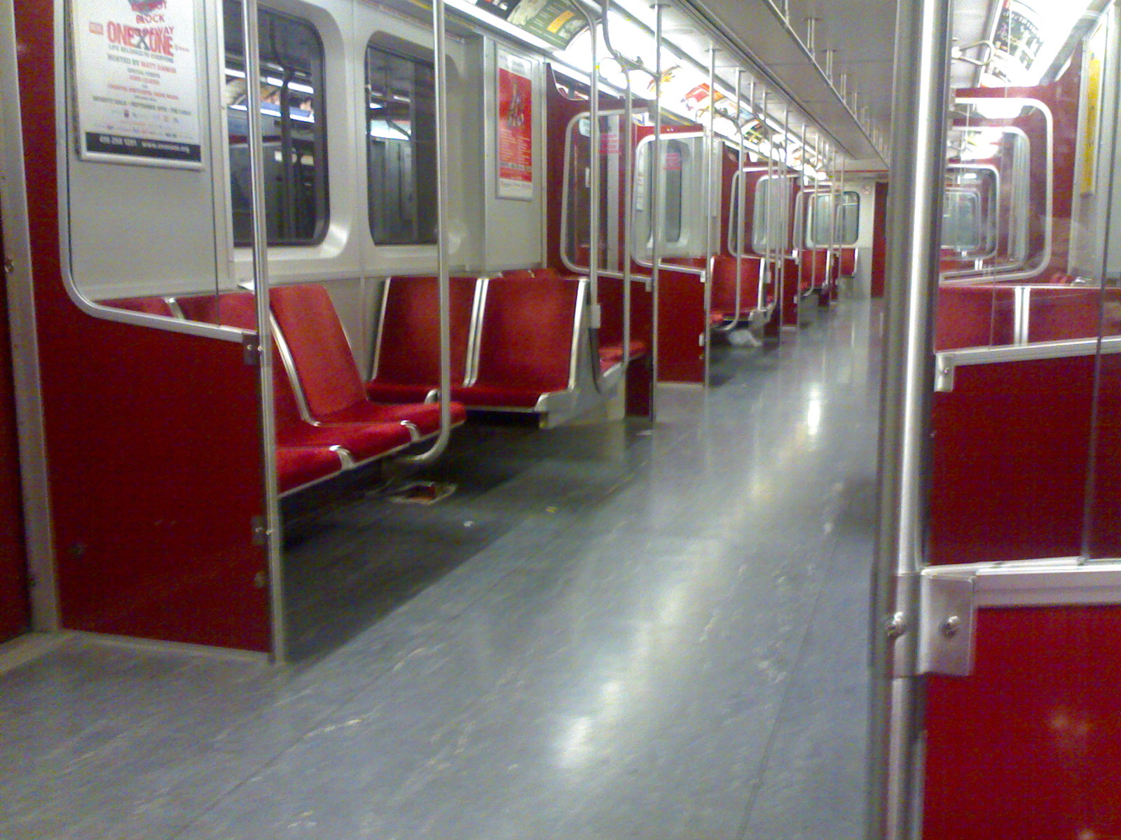 Source Deed